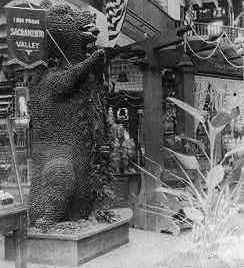 The Prune Bear, made of prunes grown in the Sacramento Valley, Calif., at the Portland, Ore. Exposition. Lib. of Congress